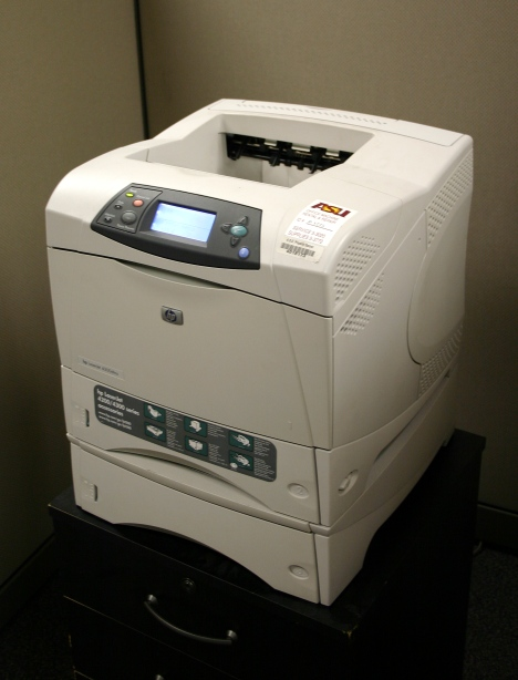 An HP LaserJet 4200 dtns printer